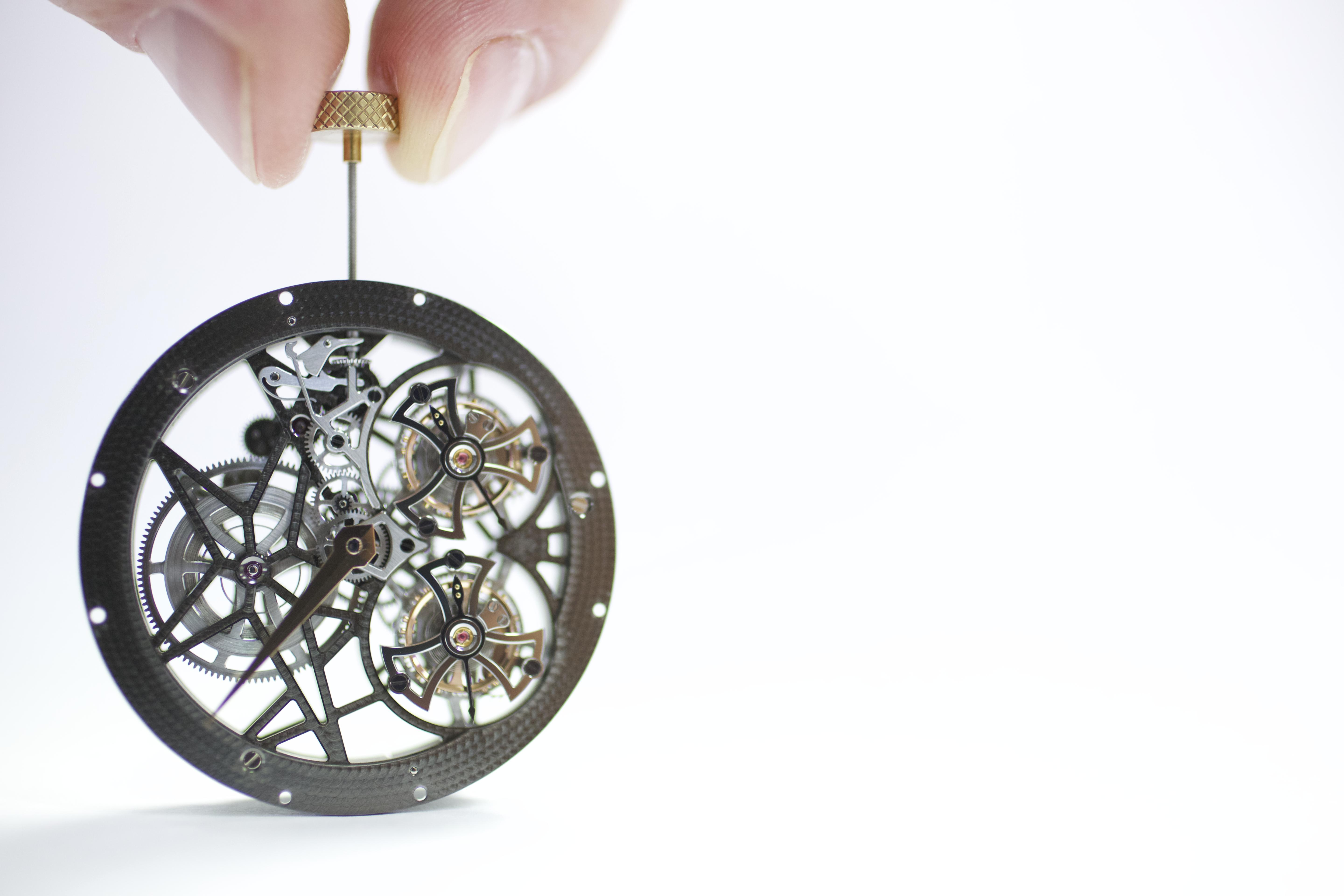 Roger Dubuis signature Double Flying Tourbillon RD01SQ movement